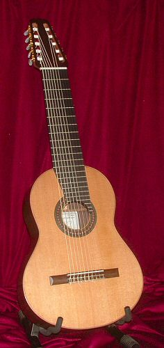 Photo of ten-string extended-range classical guitar. Gitara dziesięciostrunowa klasyczna.